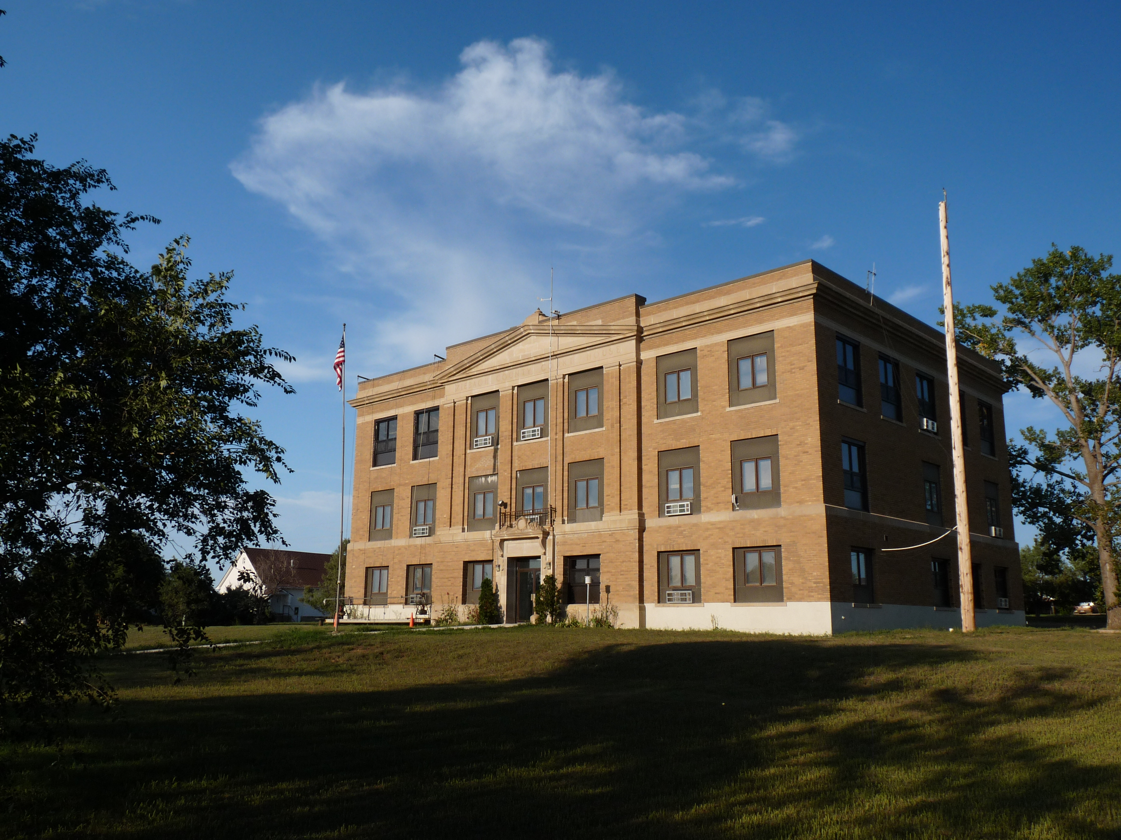 The Ziebach County Courthouse in Dupree, South Dakota, was built in 1931 in Classical Revival style. It was listed on the National Register of Historic Places in 1993.